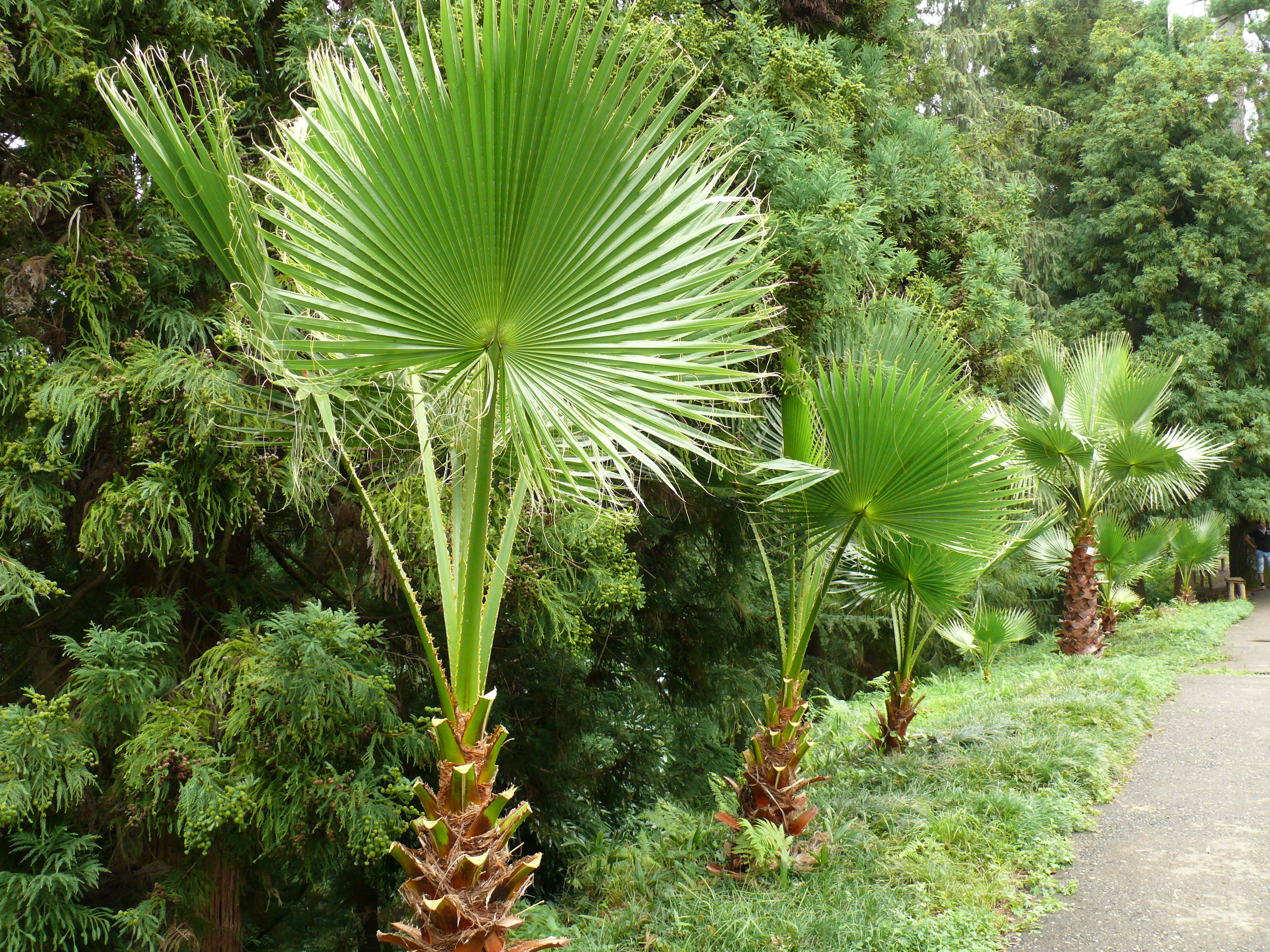 Washingtonia filifera